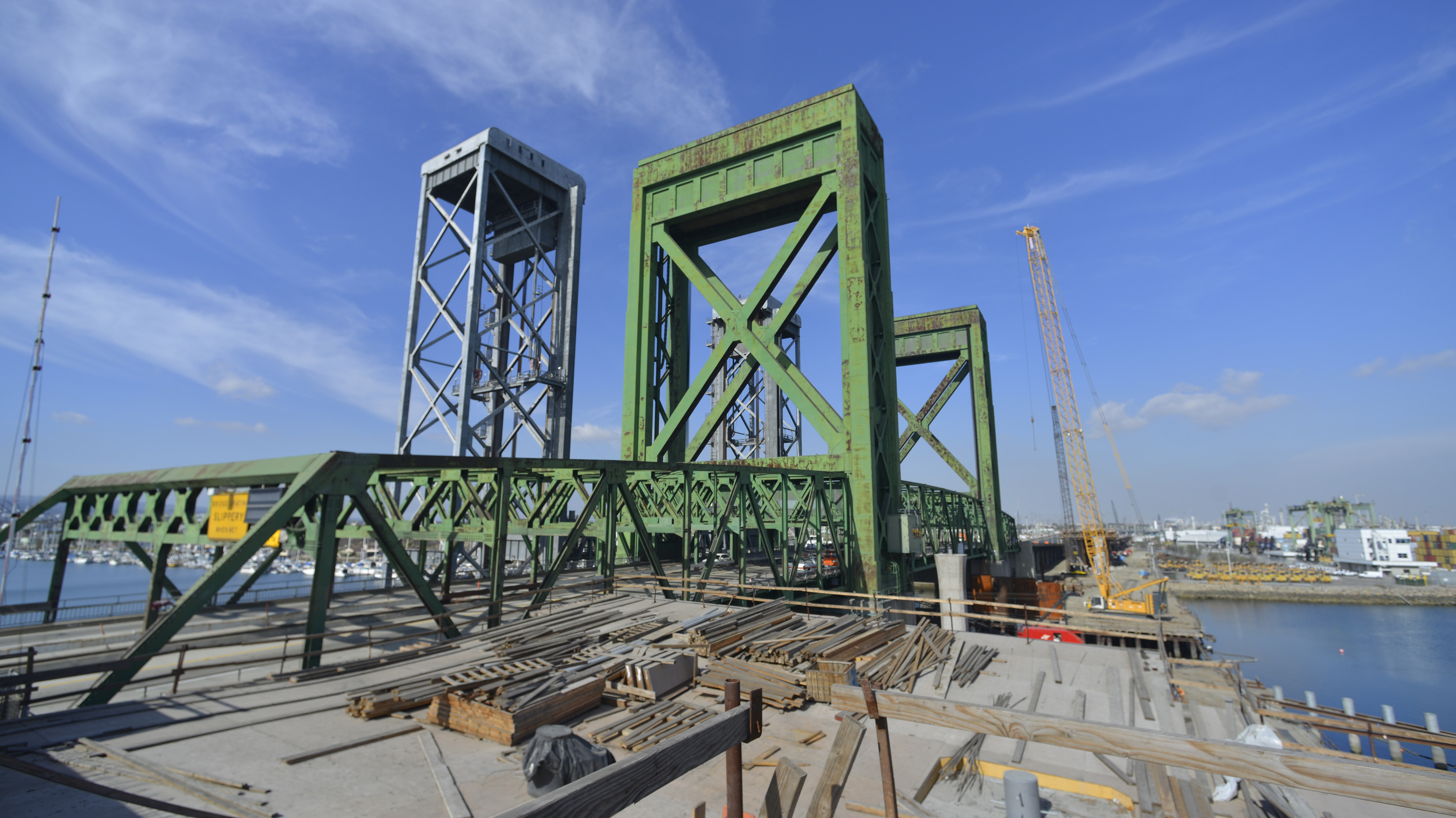 Demolition work on the Commodore Schuyler F. Heim Memorial Bridge (completed in 1948).